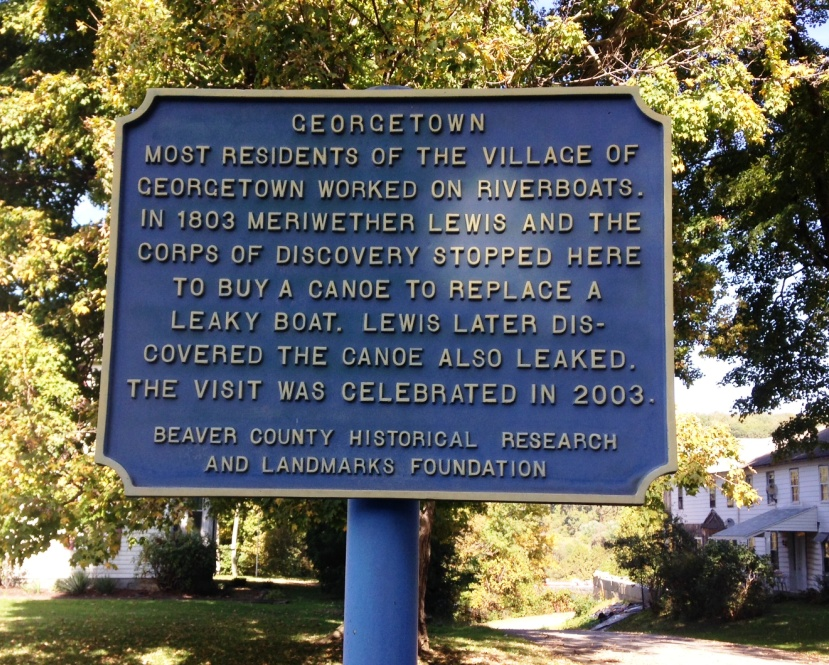 The village of Georgetown in Beaver County Pennsylvania.